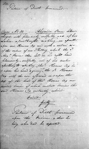 A copy of the death sentence pronounced on Alexander Pearce (1790 – 19 July 1824) for murder and cannibalism.